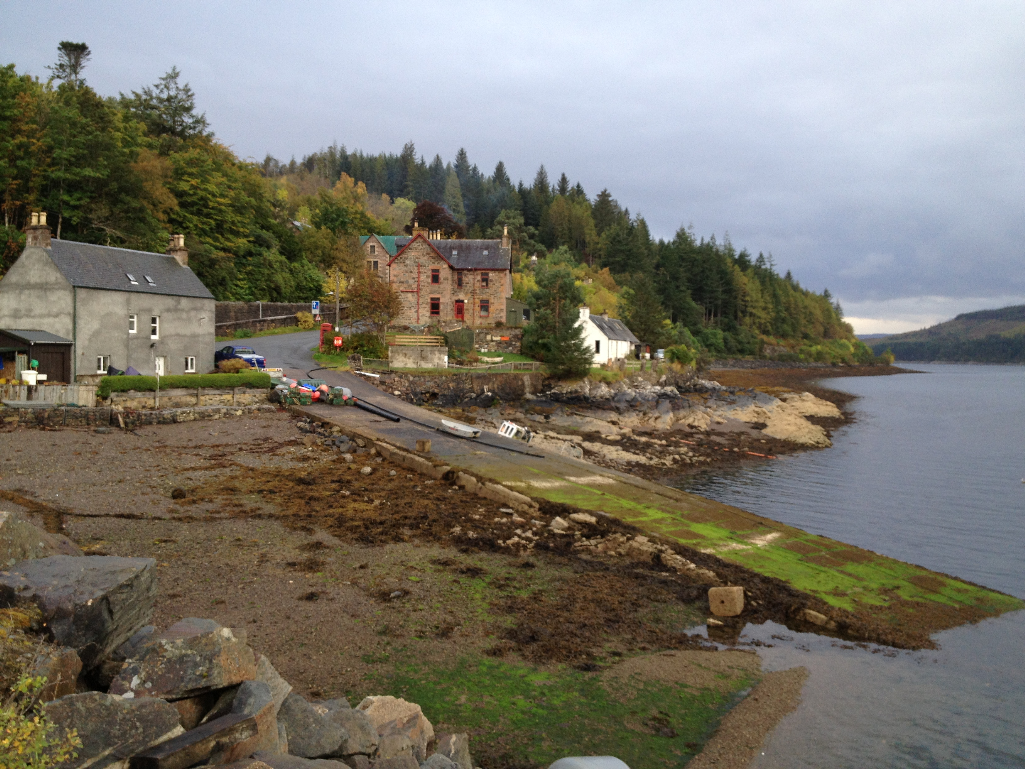 The village of Stromeferry, Scotland. Looking approximately West.